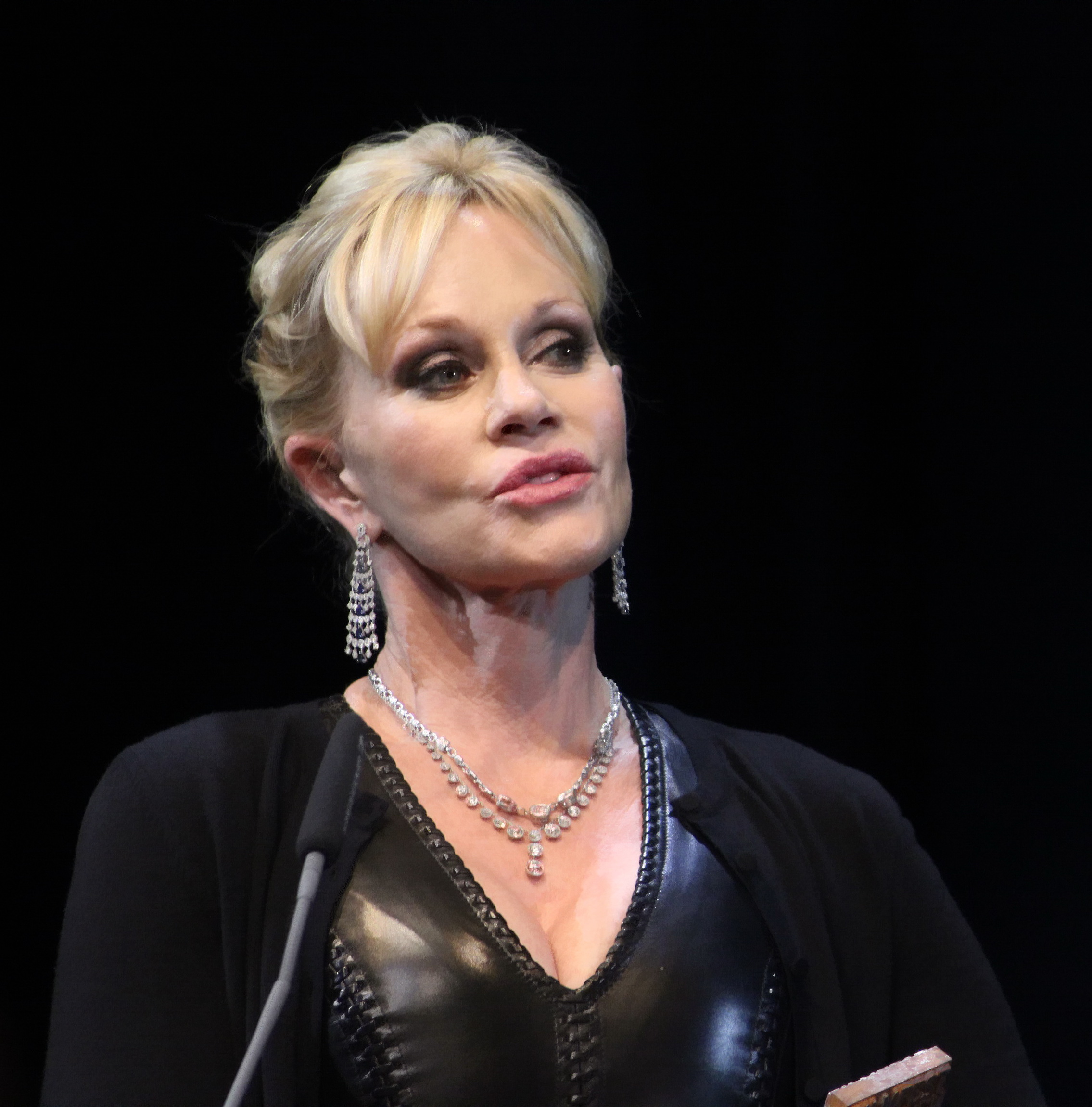 Melanie Griffith gets at the Munich Film Festival Cine Merit Award for lifetime achievement